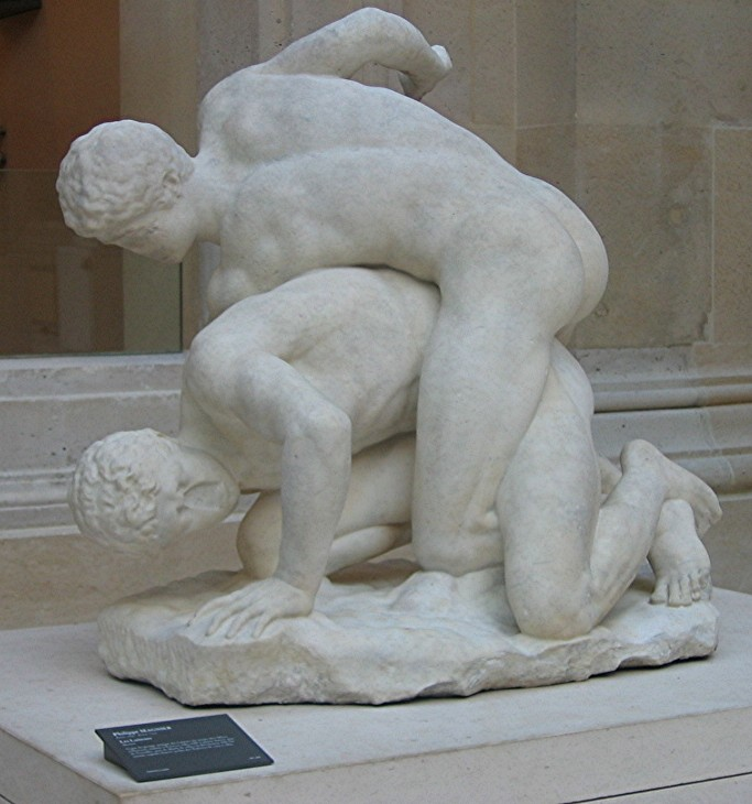 Copy of the celebrated group of the “Uffizi wrestlers”, stored in the Galleria degli Uffizi in Florence, Italy 1st century. The statue was first installed in the park of Versailles, then transferred in 1689 to the park of Marly and in 1797 to the Tuileries Gardens.